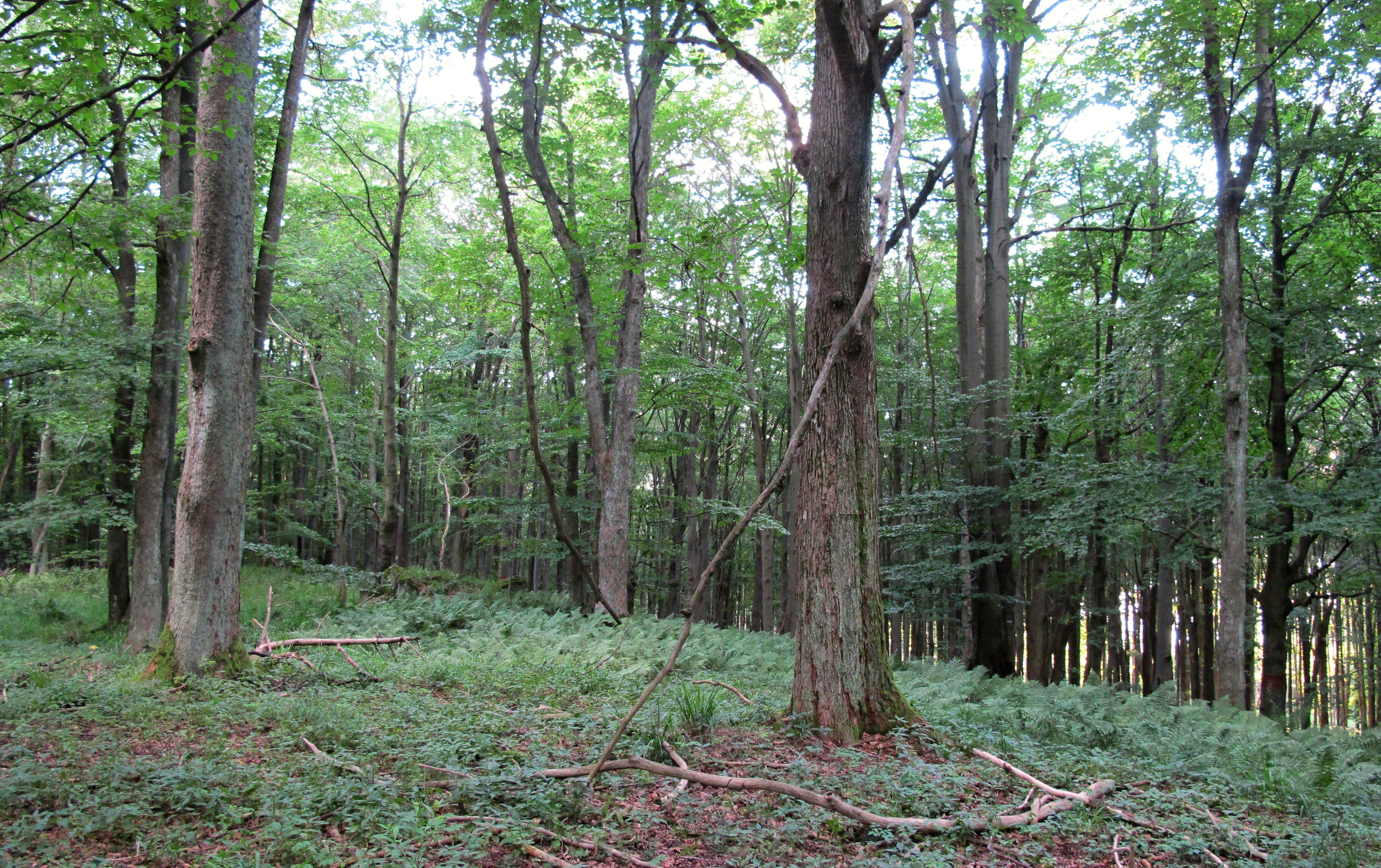 Nature reserve Getsemanka I. and II., near Rožmitál pod Třemšínem in Příbram District (Czech Republic)